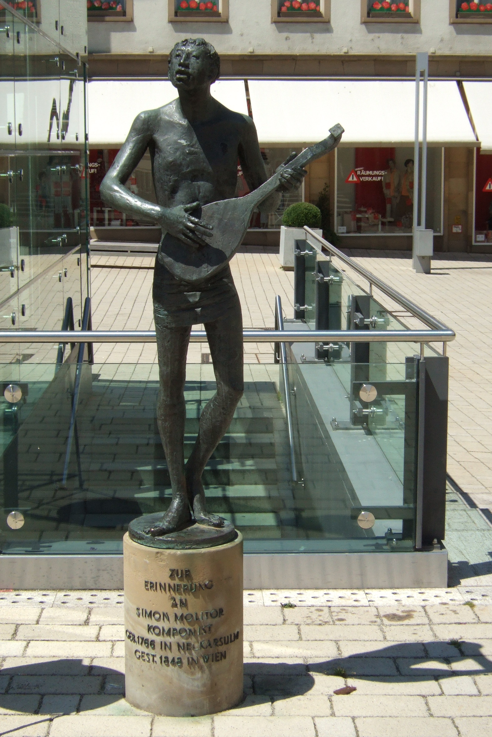 Memorial of Simon Molitor (Composer) in Neckarsulm/Germany